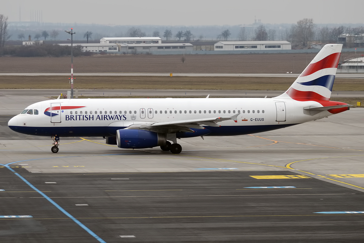 British Airways, G-EUUS, Airbus A320-232